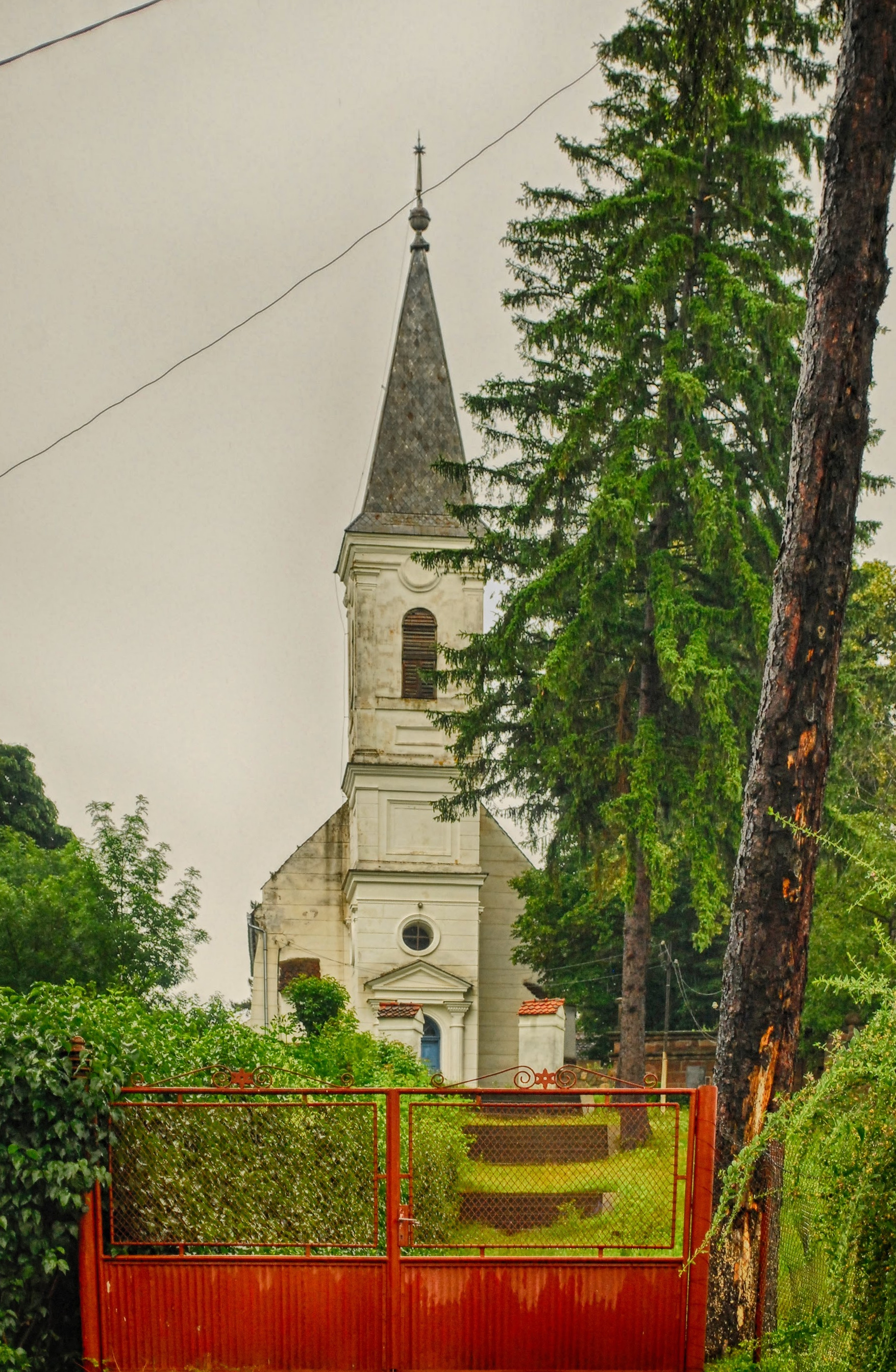 Reformed church in Araci, Vâlcele commune, Covasna County, Romania